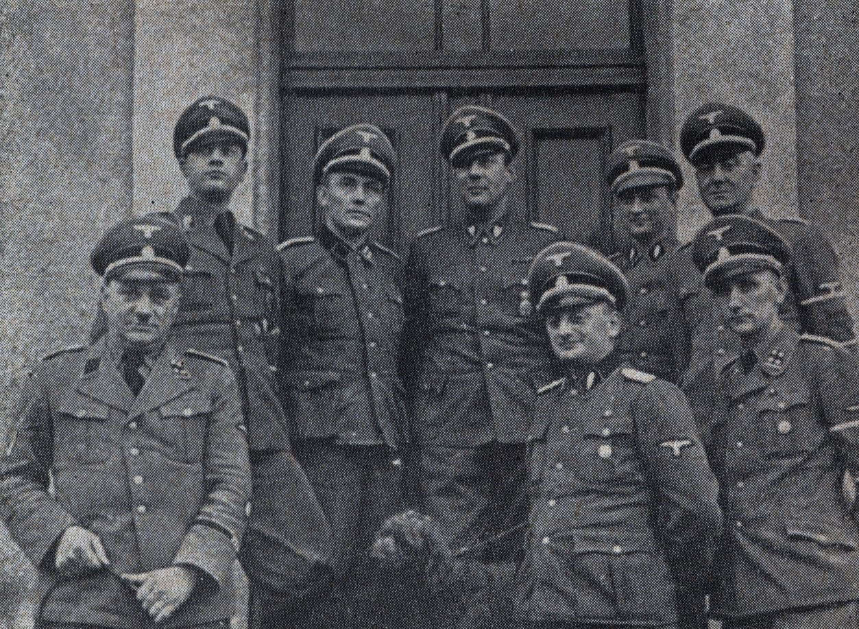 Group photo depicting the commanders of "Selbstschutz Westpreussen" – paramilitary formation composed of members of the German minority in pre-war Poland. Between September 1939 and April 1940 Selbstschutz - together with other Nazi-German formations - murdered tens of thousands of Poles in Pomerania. In the first row stand: SS-Sturmbannführer Josef Meier – chief of the Selbstschutz’s inspectorate in Starogard Gdański, known as "Bloody Meier" (first from the left); SS-Standartenführer Heinrich Mocek – chief of the Selbstschutz’s inspectorate in Chojnice (second from the left); SS-Obersturmbannführer Erich Spaarmann - chief of the Selbstschutz’s inspectorate in Bydgoszcz to November 1939(third from the left). In the second row stand: Unidentified SS officer (first from the left); SS-Obersturmbannführer dr Hans Kölzow – chief of the Selbstschutz’s inspectorate in Inowrocław (second from the left); SS-Oberführer Ludolf-Hermann von Alvensleben – leader of "Selbstschutz Westpreussen" (third from the left); SS-Standartenführer Ludolf Jacob von Alvensleben – chief of the Selbstschutz’s inspectorate in Płutowo (fourth from the left); SS-Sturmbannführer Christian Schnug – chief of the Selbstschutz’s inspectorate in Bydgoszcz since December 1939 (fifth from the left). During the second world war this photo was placed in so-called "Album of fame of Selbstschutz" (known also as "Alvensleben Album"). After the end of war this album was found and taken over by the Polish authorities. It is now in the archives of the Commission for the Investigation of Nazi Crimes in Poland.